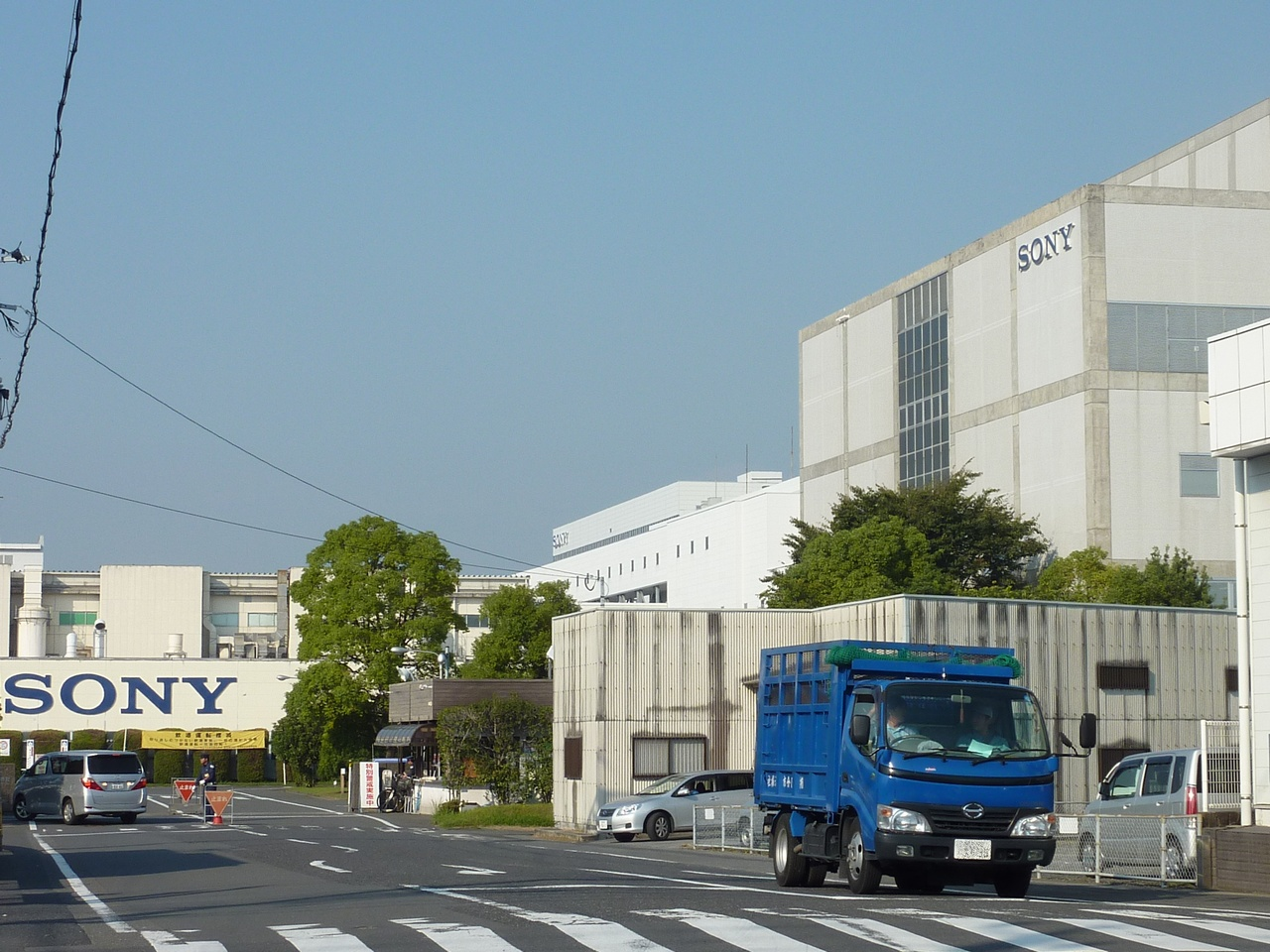 Sony Kokubu, is in Kirishima City, Kagoshima Prefecture, Japan.